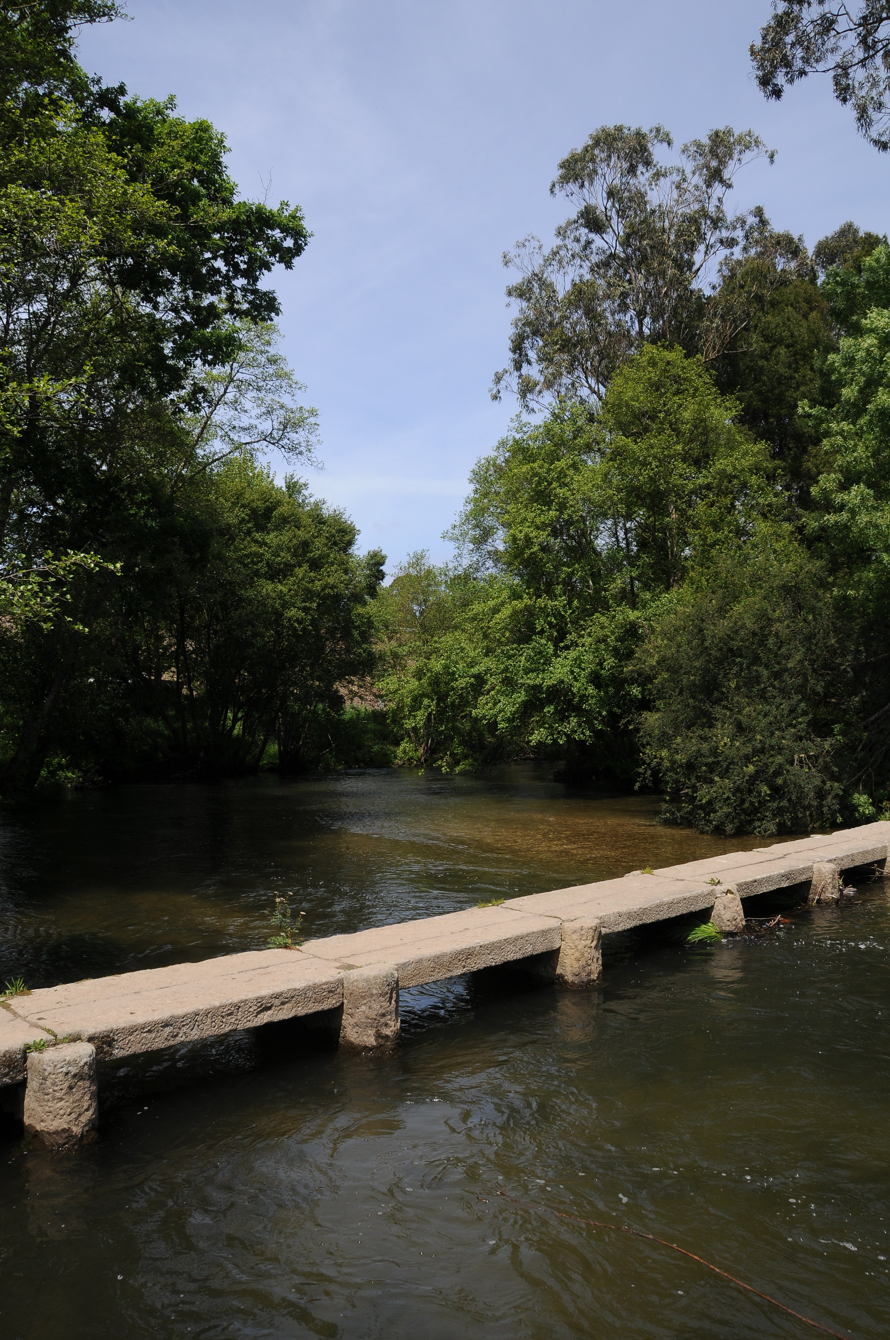 Pedonal bridge in Rio Neiva in Antas, Esposende, Portugal